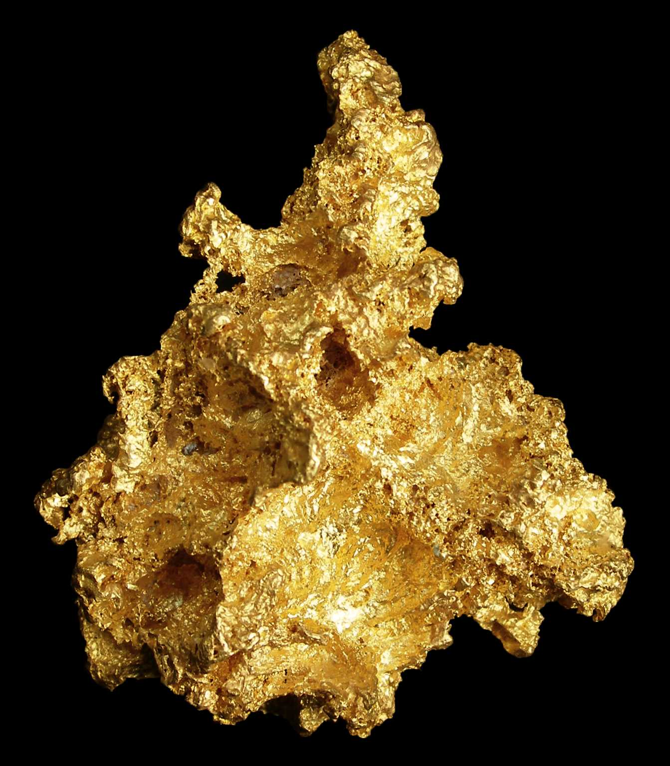 Gold Locality: near Bendigo, Victoria, Australia Size: small cabinet, 5.6 x 4.4 x 2.5 cm Gold A very elaborate, 3-dimensional cluster of gold that shows complex and minute crystallization patterns, and is overall hackly in texture. 130 grams or approximately 4.25 troy ounces, this is a very displayable and impressive nugget that is not just the typical flat boring pancake from this famous goldfield!